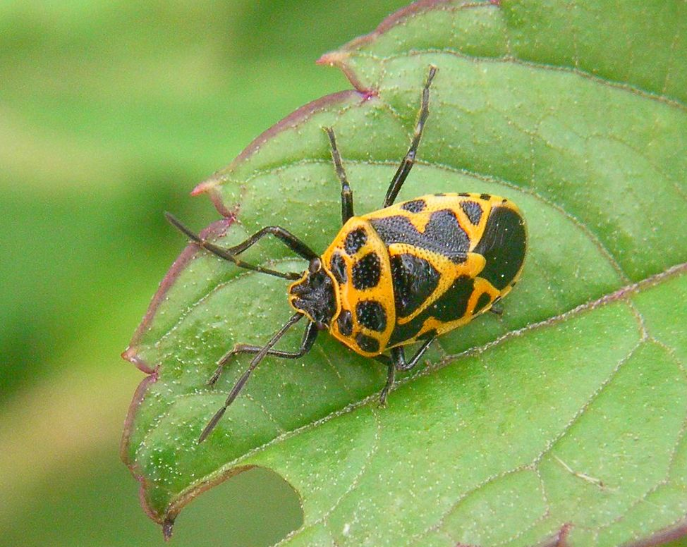 Eurydema dominulus. One of cabbage stink bugs in East Asia. Roadside in Fujimi, Saitama prefecture, Japan.